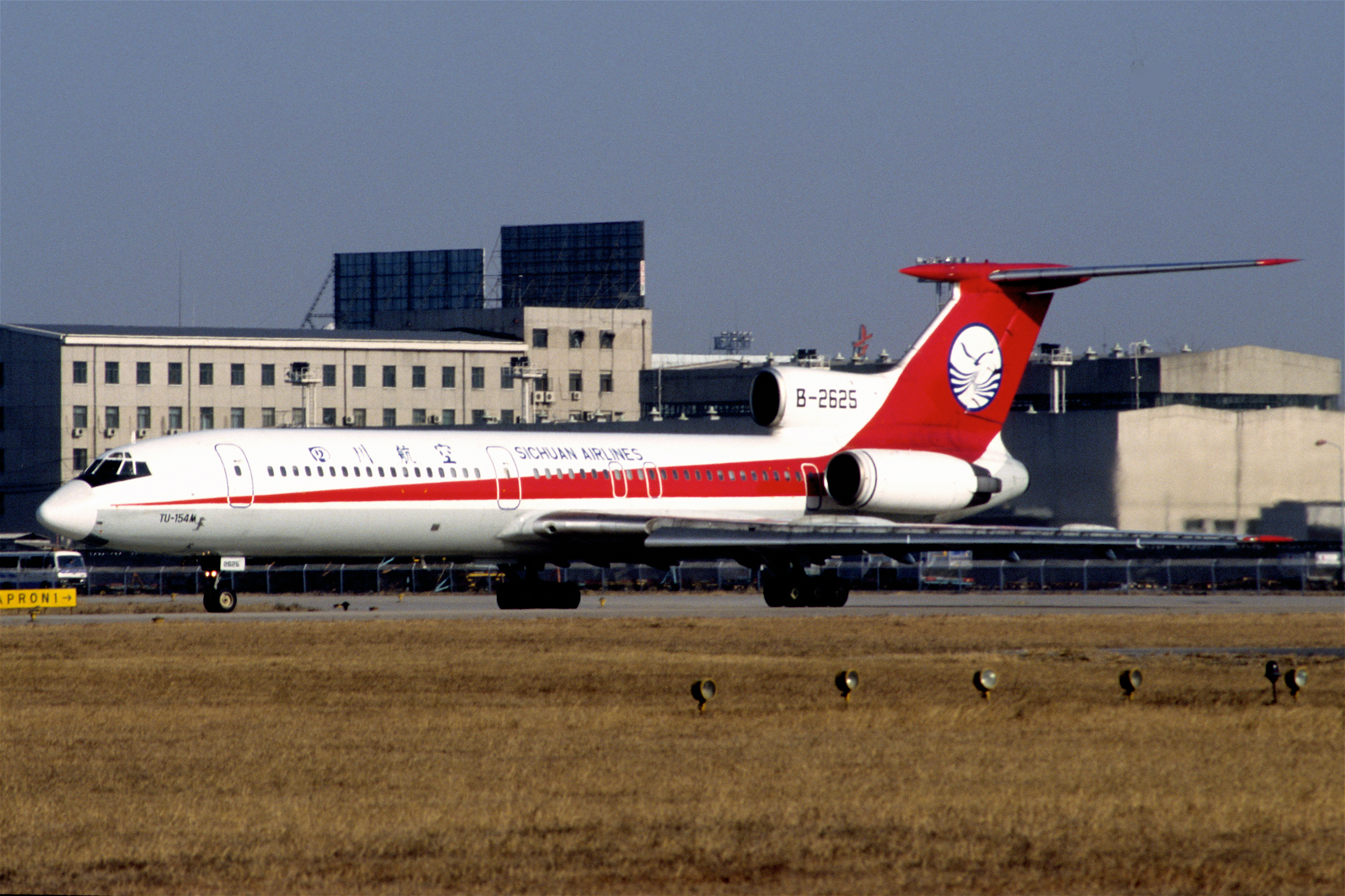 Sichuan Airlines Tupolev 154M; B-2625@PEK, January 1998/ BMY